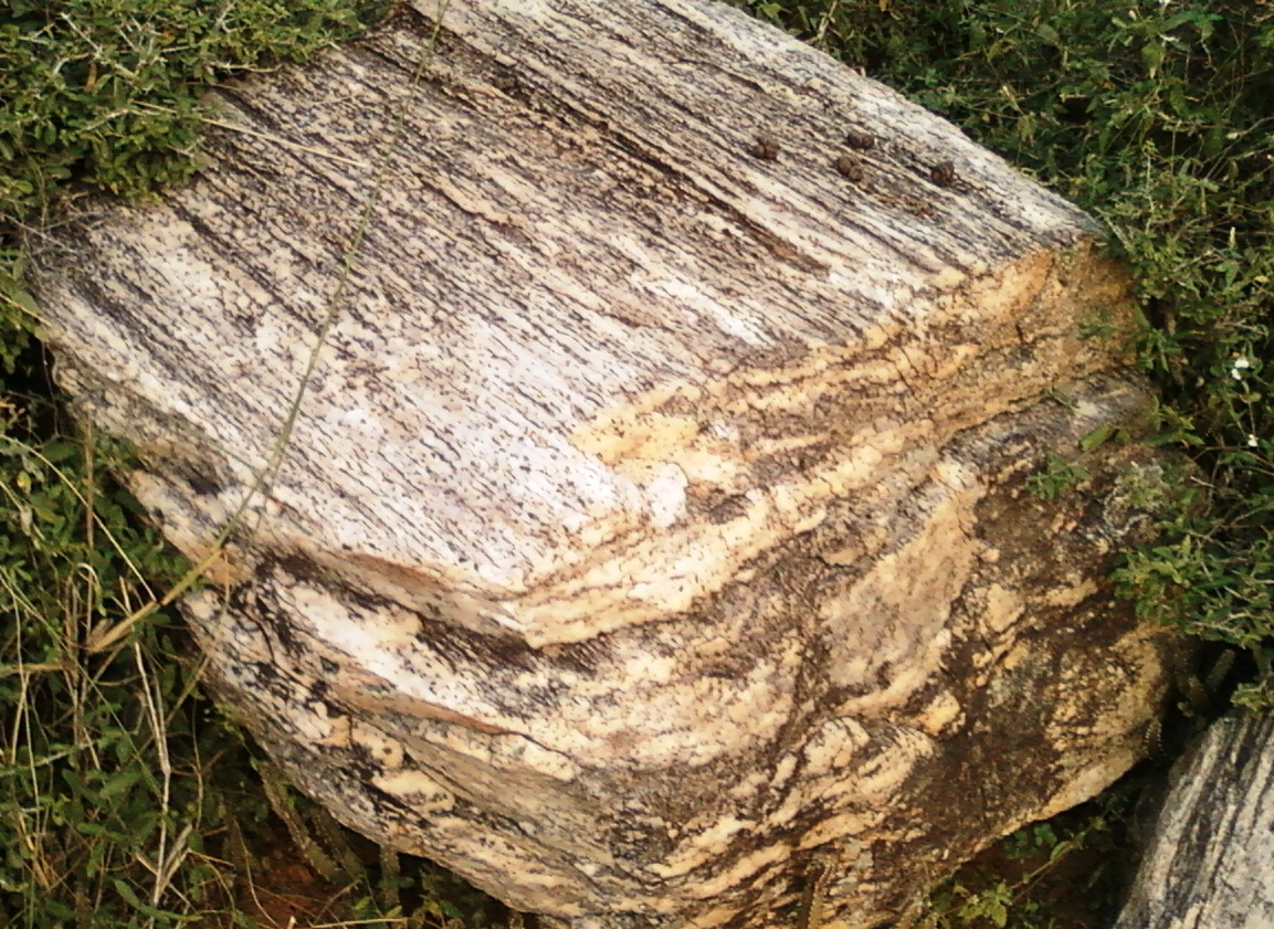 Khondalite rocks at a hillock near Anandapuram, Visakhapatnam District